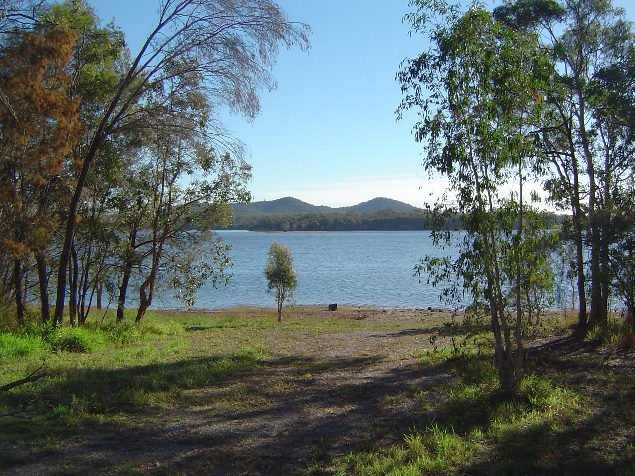 Photo of Leslie Harrison Dam from Allambee Crescent in Capalaba, Redland City, Queensland, Australia.